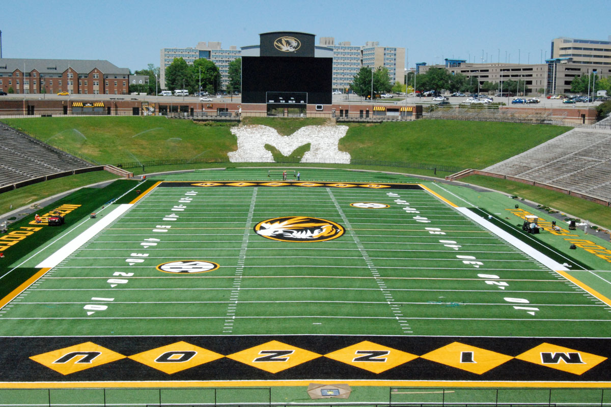 Image of the redesigned surface of Faurot Field as of the 2012 season as seen from the south end zone.